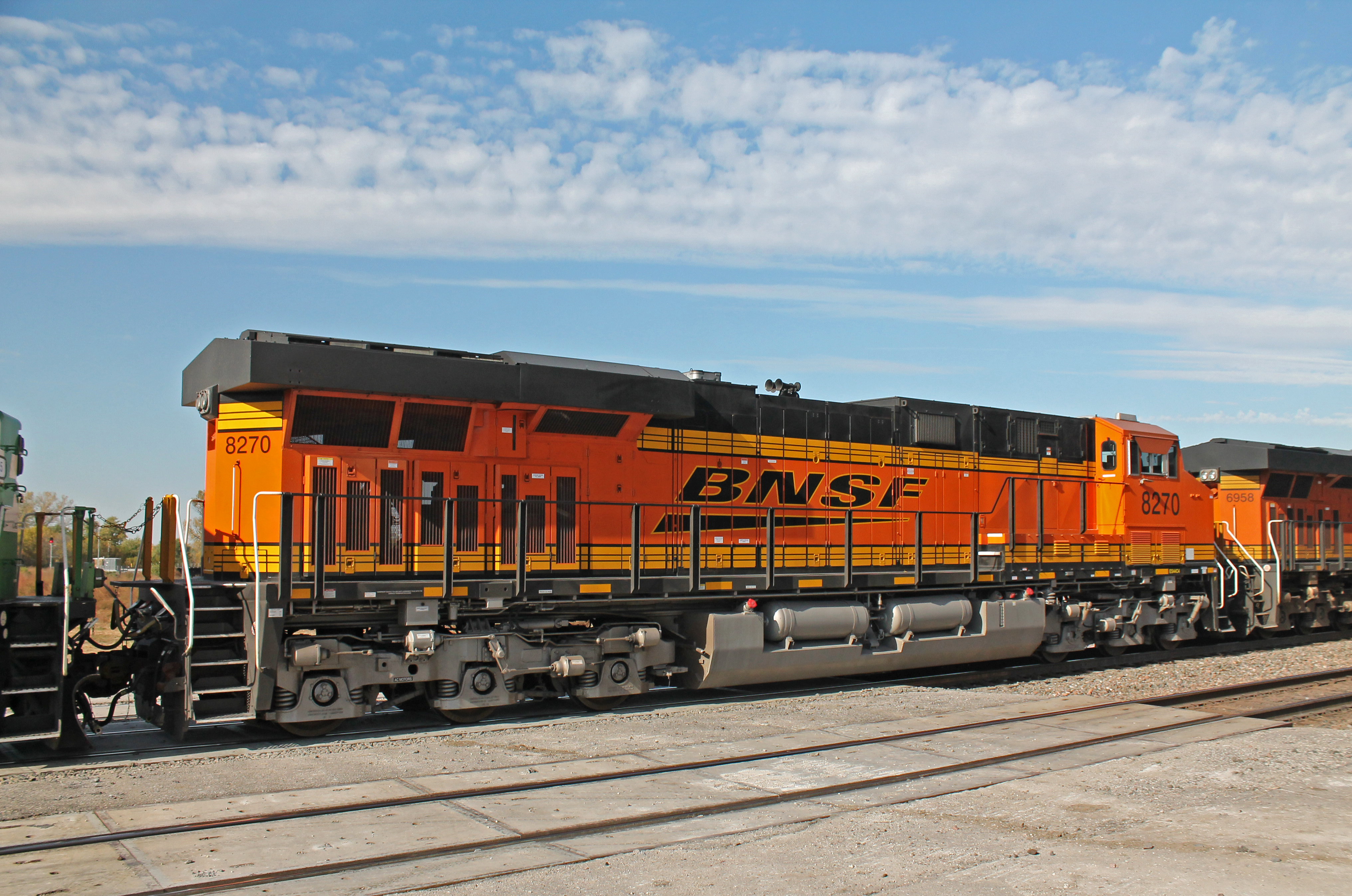 Rear view of brand new BNSF Railway ES44C4 no. 8270.